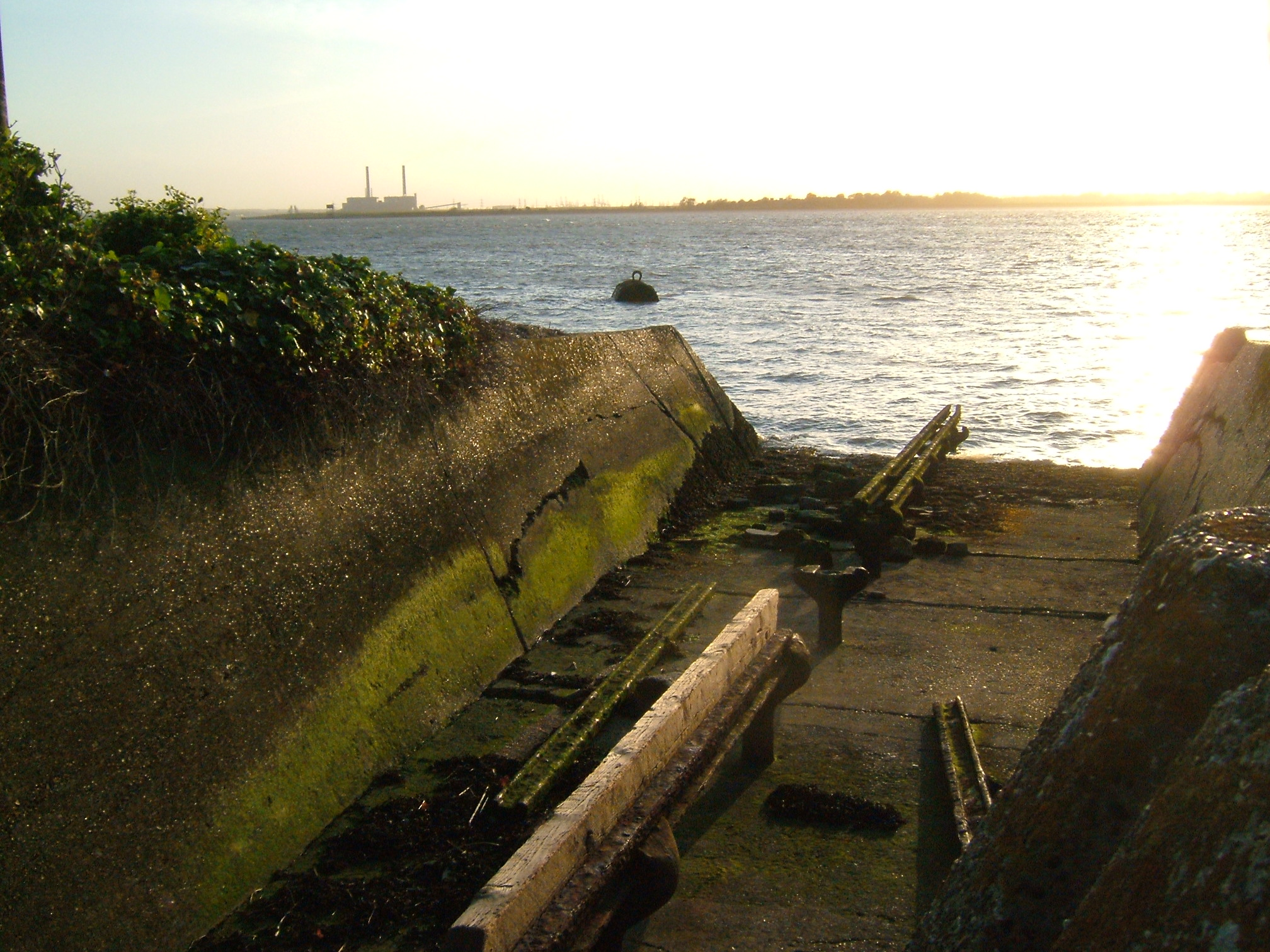 Cliffe Fort is a Napoleonic Fort built TQ 708767 as part of the defences of Chatham Dockyard. It is on the Thames Estuary, on The Lower Hope. The remains of the Brennan Torpedo tracks . Cliffe.